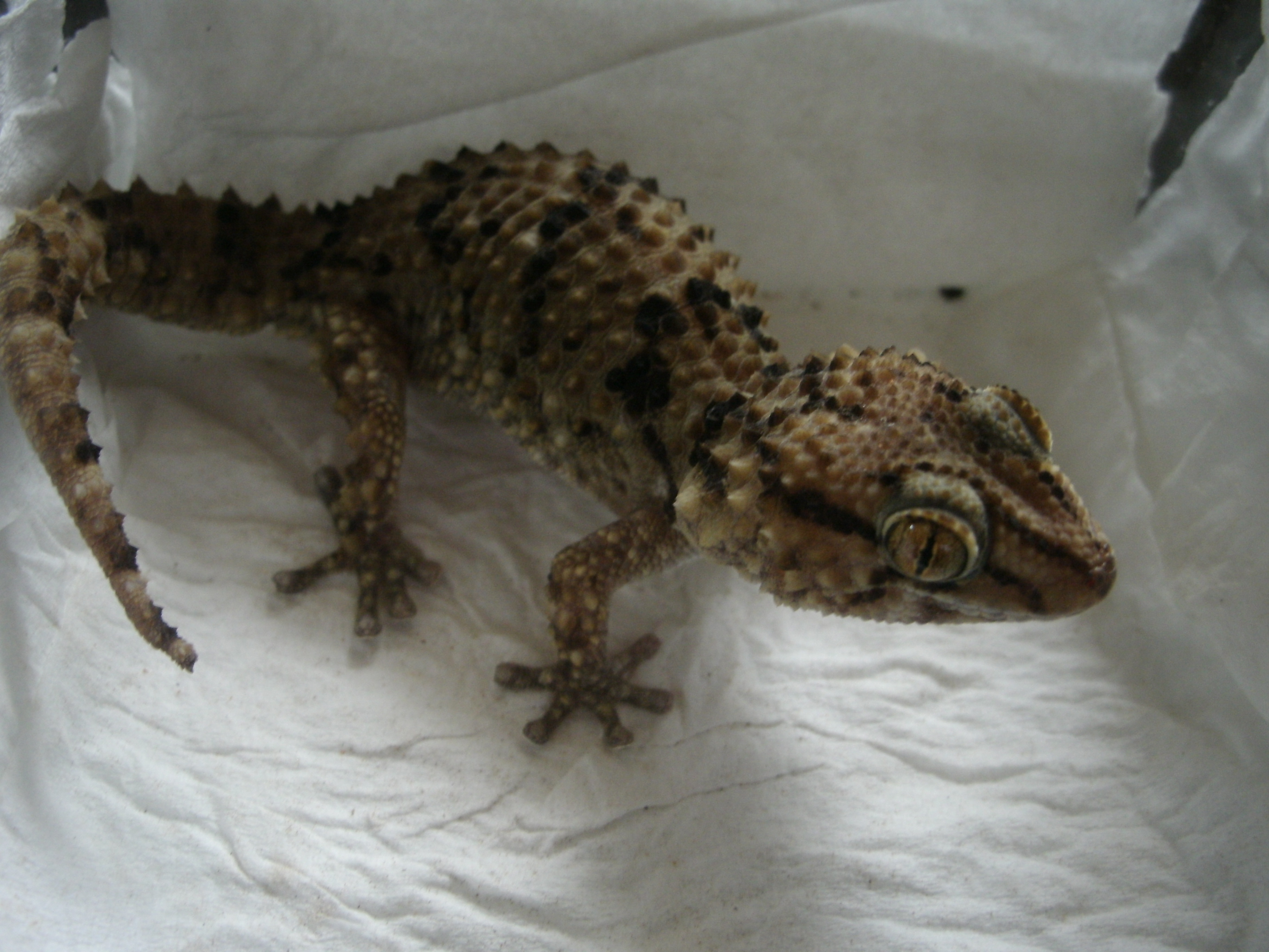 Chondrodactylus turneri female